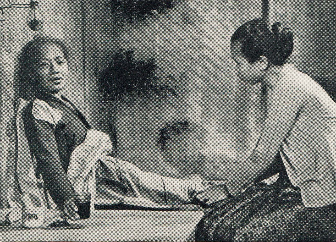 Marlia Hardy in Si Pintjang